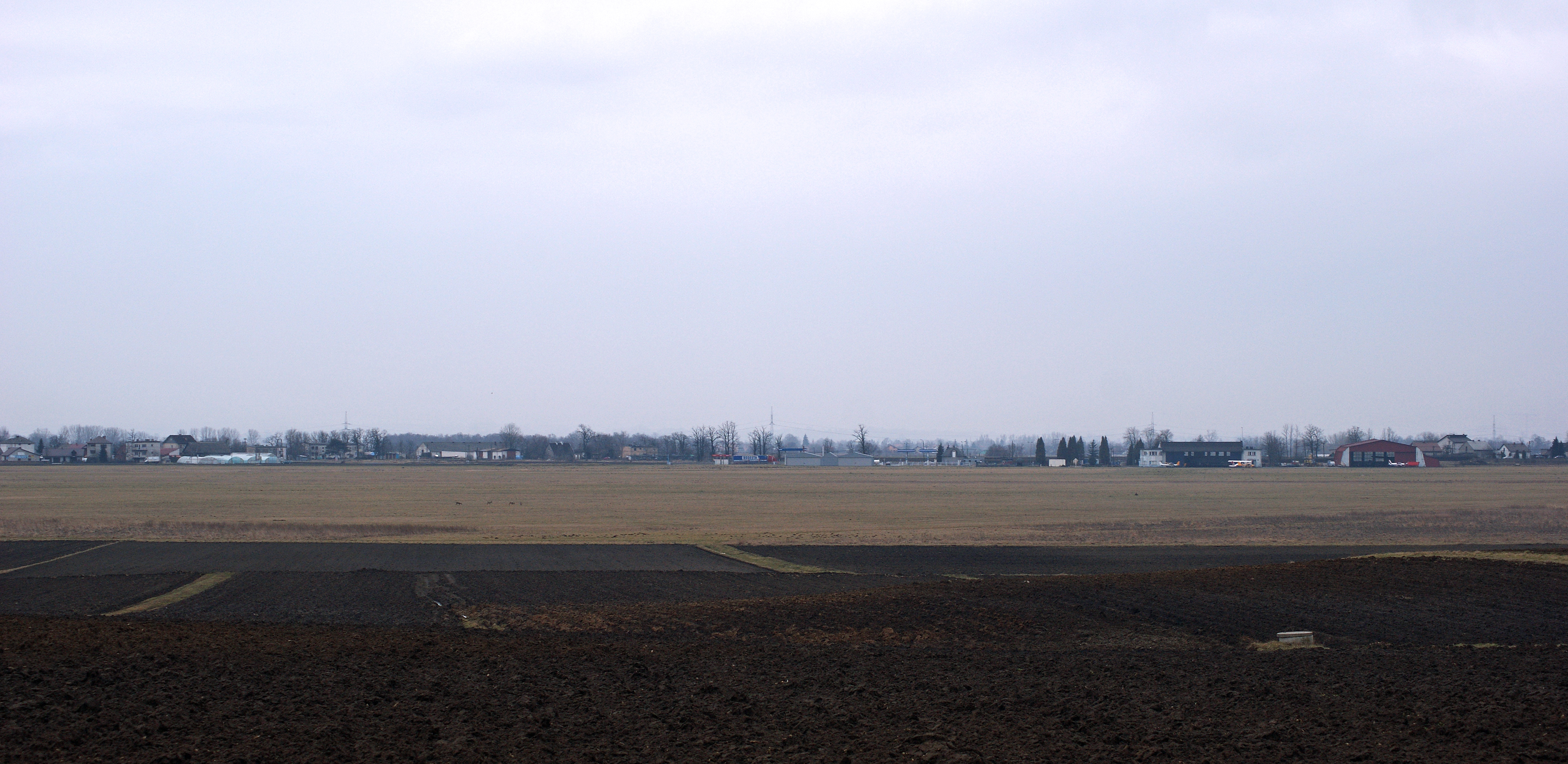 Krakow-Pobiednik Airfield (ICAO: EPKP), view from N, Pobiednik Wielki village, Kraków County, Lesser Poland Voivodeship, Poland